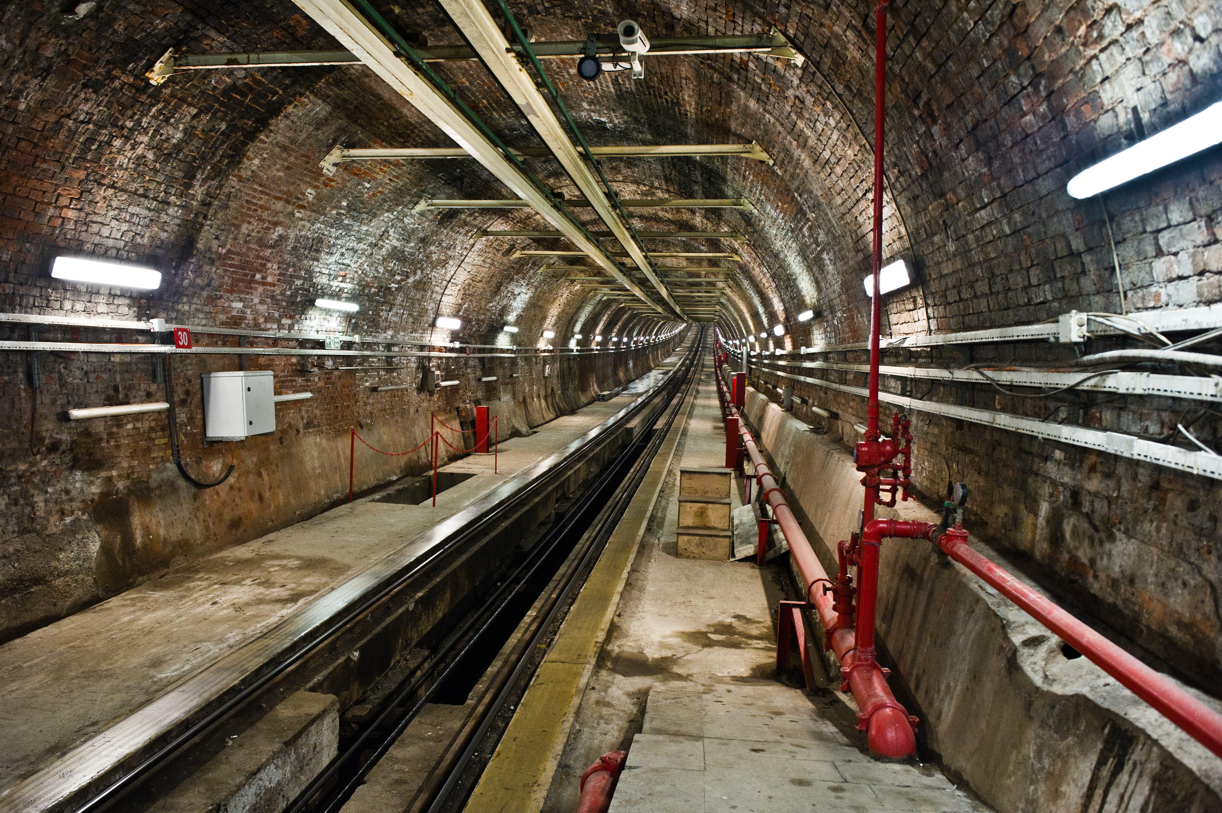 Picture taken from the bottom of the Tünel in Istanbul. Picture by Bill Ebbesen.